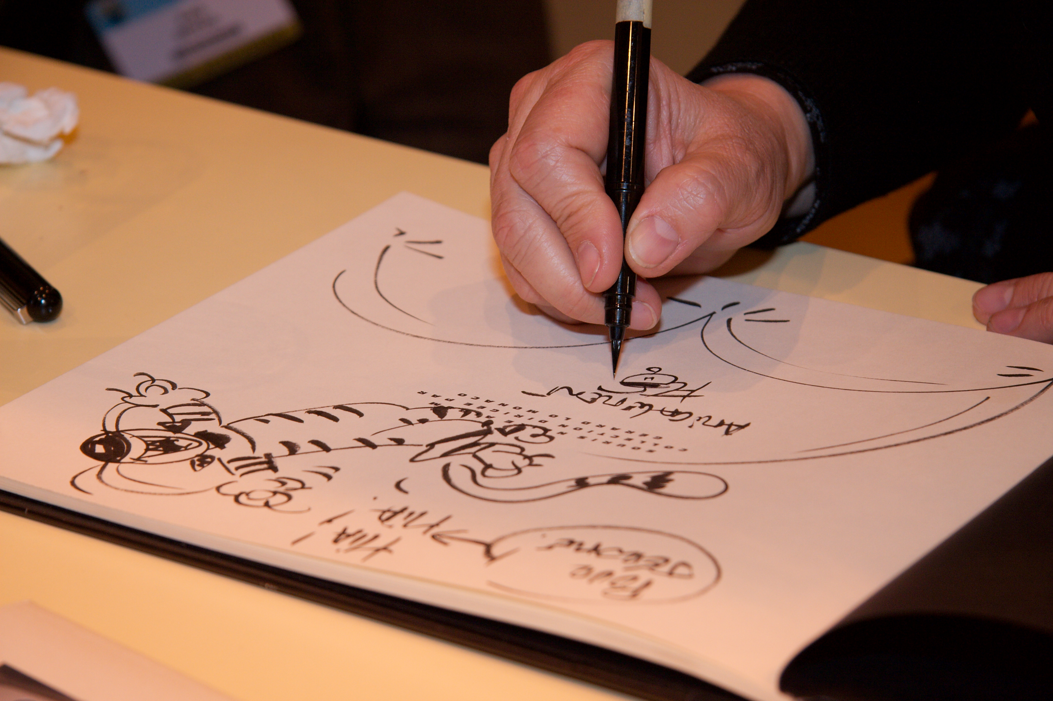 Autograph session with Florence Cestac at Salon du livre 2008 (Paris, France)